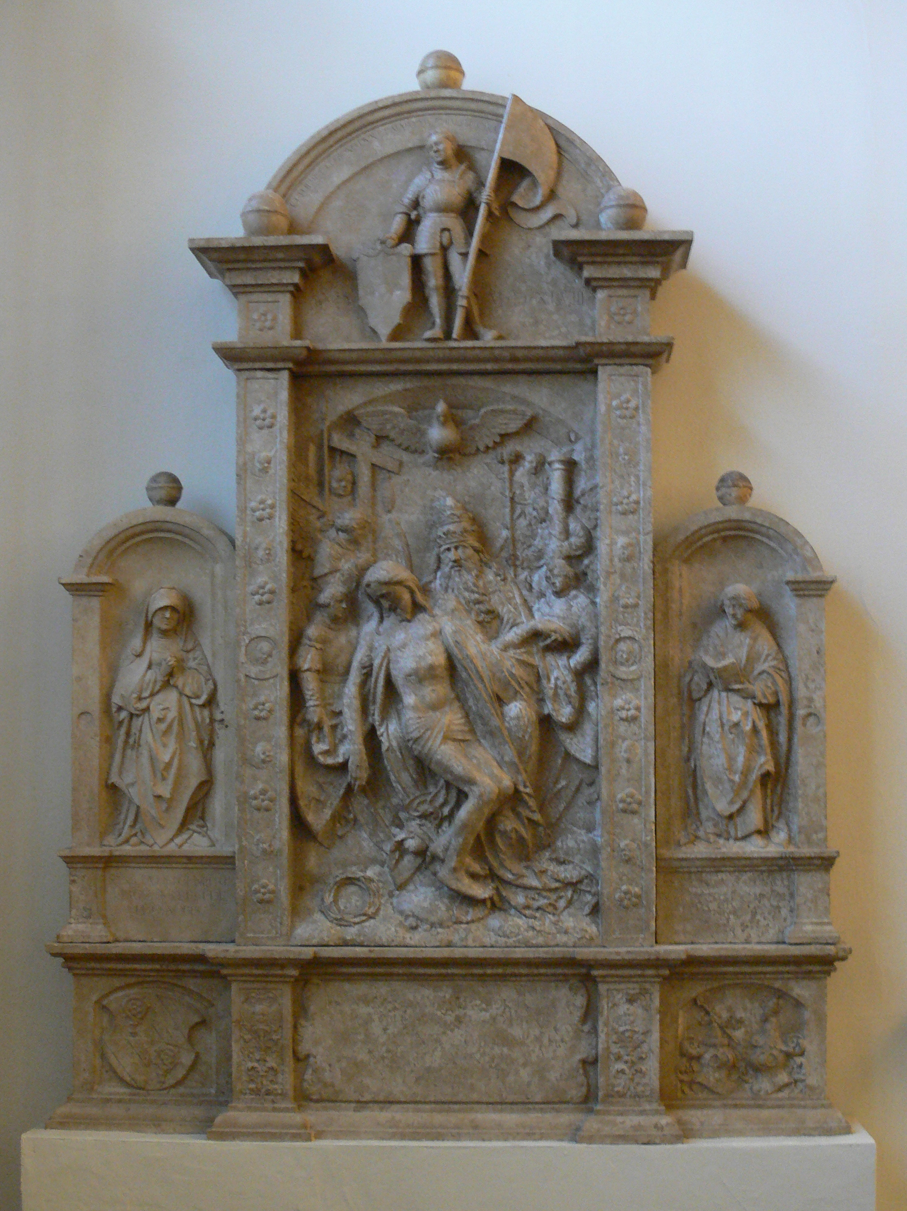 Loy Hering: Moritzbrunn Altar, Eichstätt, dated 1548; limestone Bayerisches Nationalmuseum München, Inv. Nr. R 6562, erworben 1885